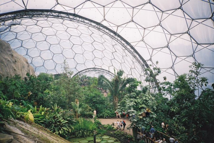 Inside the Humid Tropics Biome at the Eden Project, Cornwall.